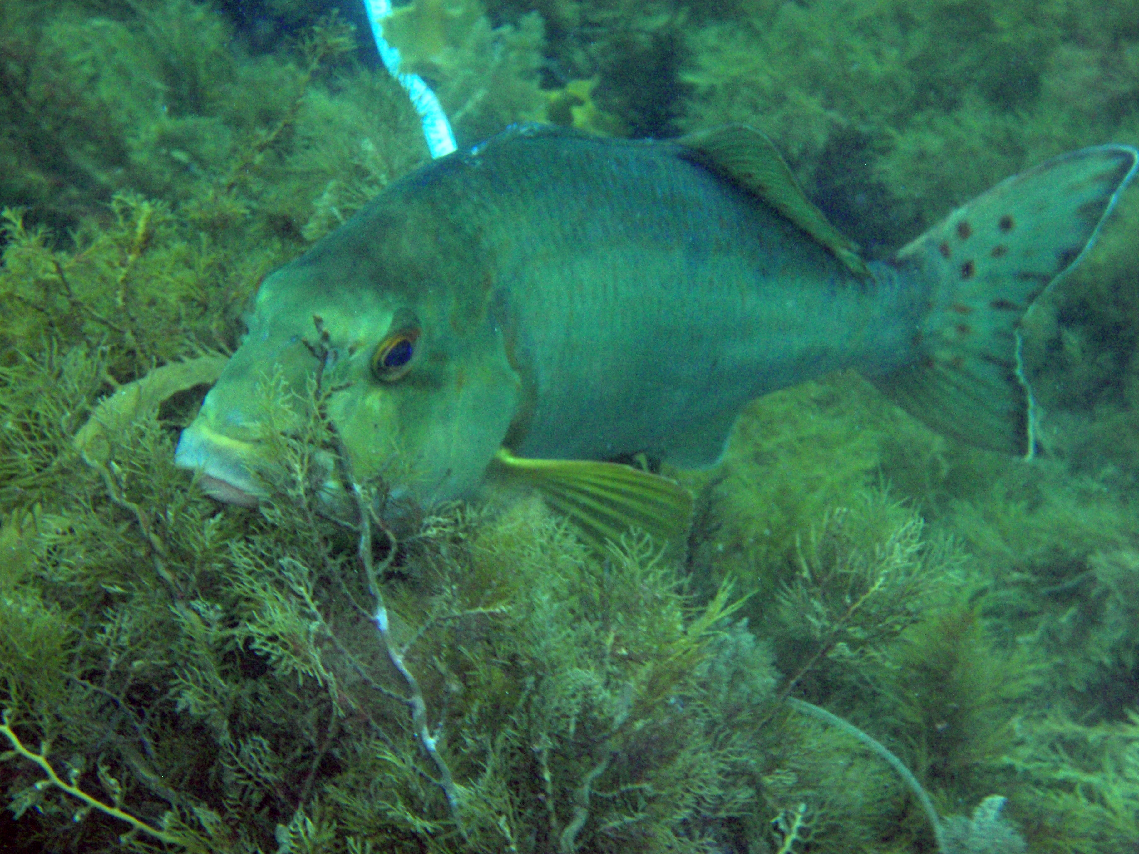 Dusky morwong Dactylophora nigricans at Wedge Island, South Australia